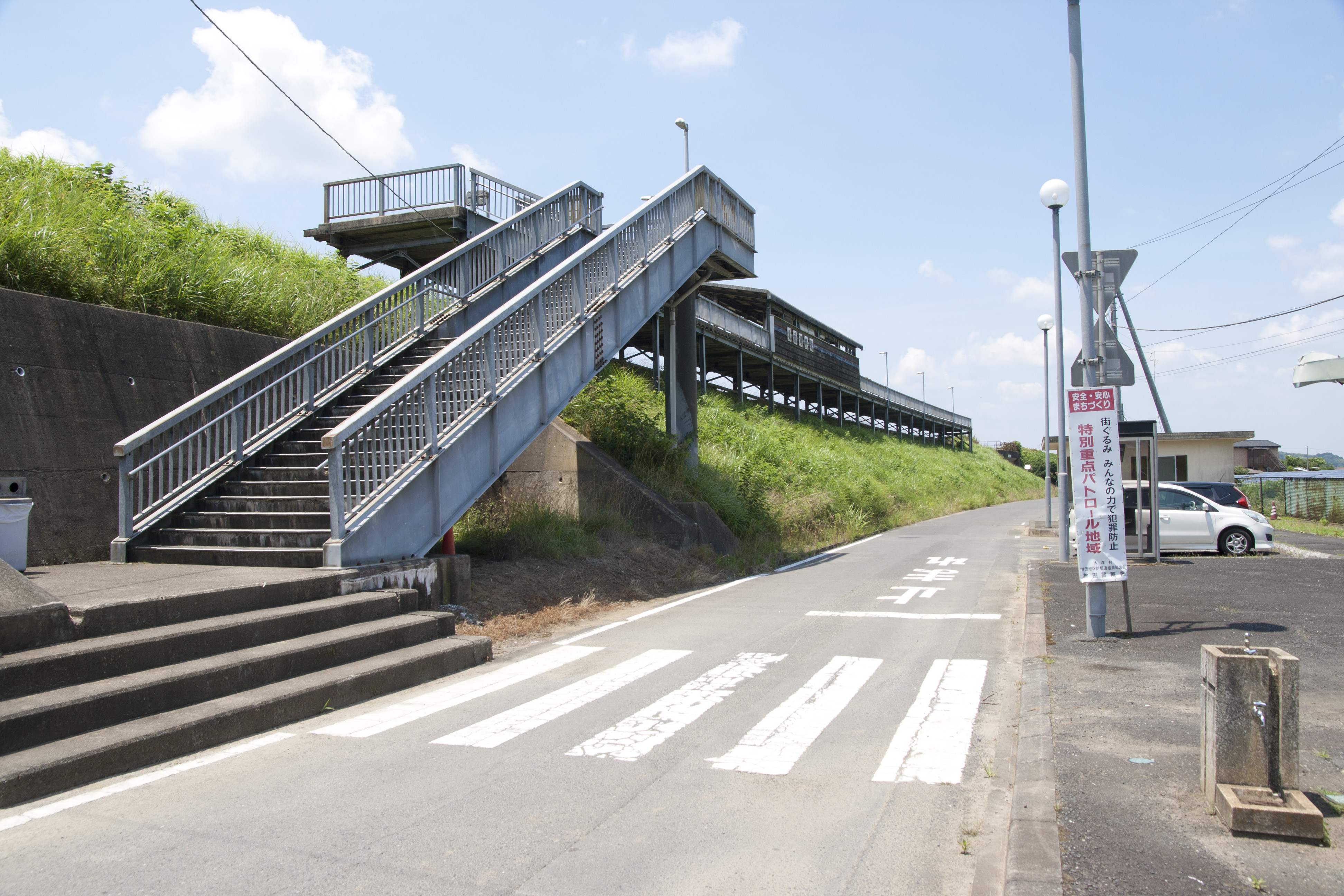 Kitaura-Kohan Station in Hokota City, Ibaraki Prefecture, Japan